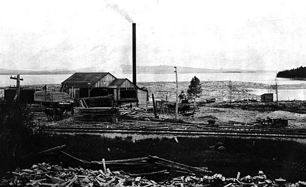 Sawmill and log boom, in Meductic, New Burnswick, circa 1920.